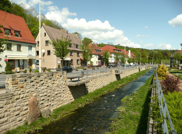 This image shows the main street and the Gottleuba river in Berggießhübel in Saxony, Germany.